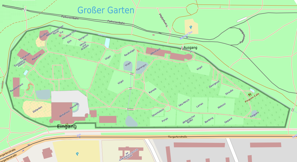 This map of Zoo Dresden was created from OpenStreetMap project data, collected by the community. This map may be incomplete, and may contain errors. Don't rely solely on it for navigation.